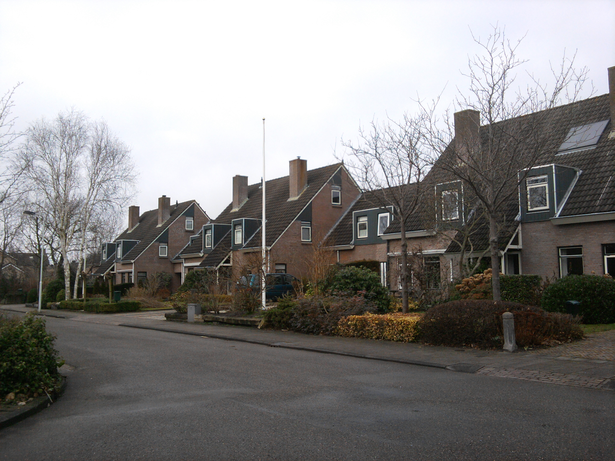 Town of Joure, Zuiderveld, street of Touslaggerij.